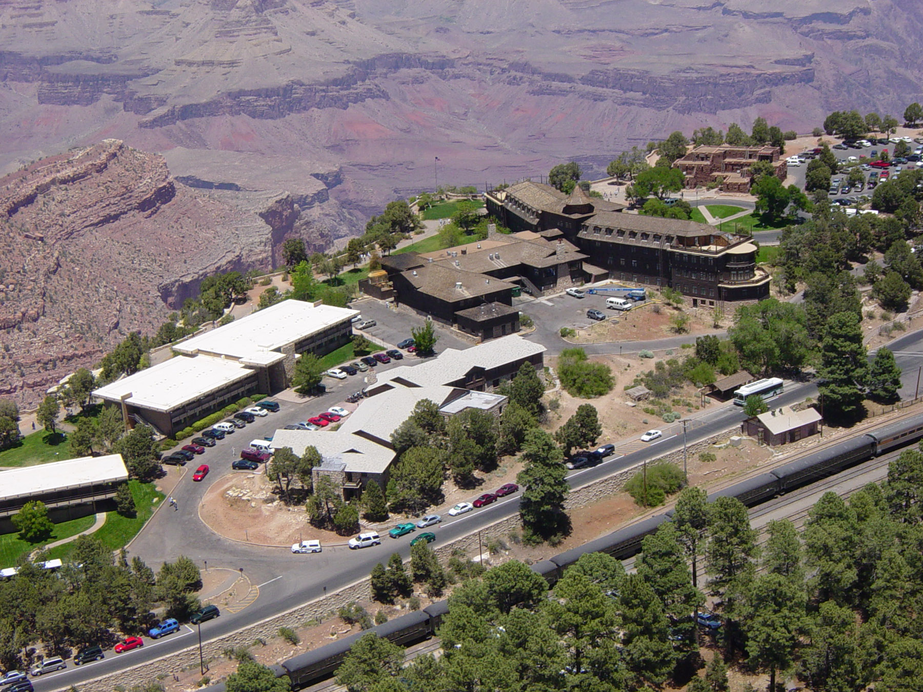 Aerial view of the El Tovar Hotel, Hopi House, Colter Hall and Kachina Lodge. Passenger train at the station, in the Historic District on the South Rim of Grand Canyon National Park.